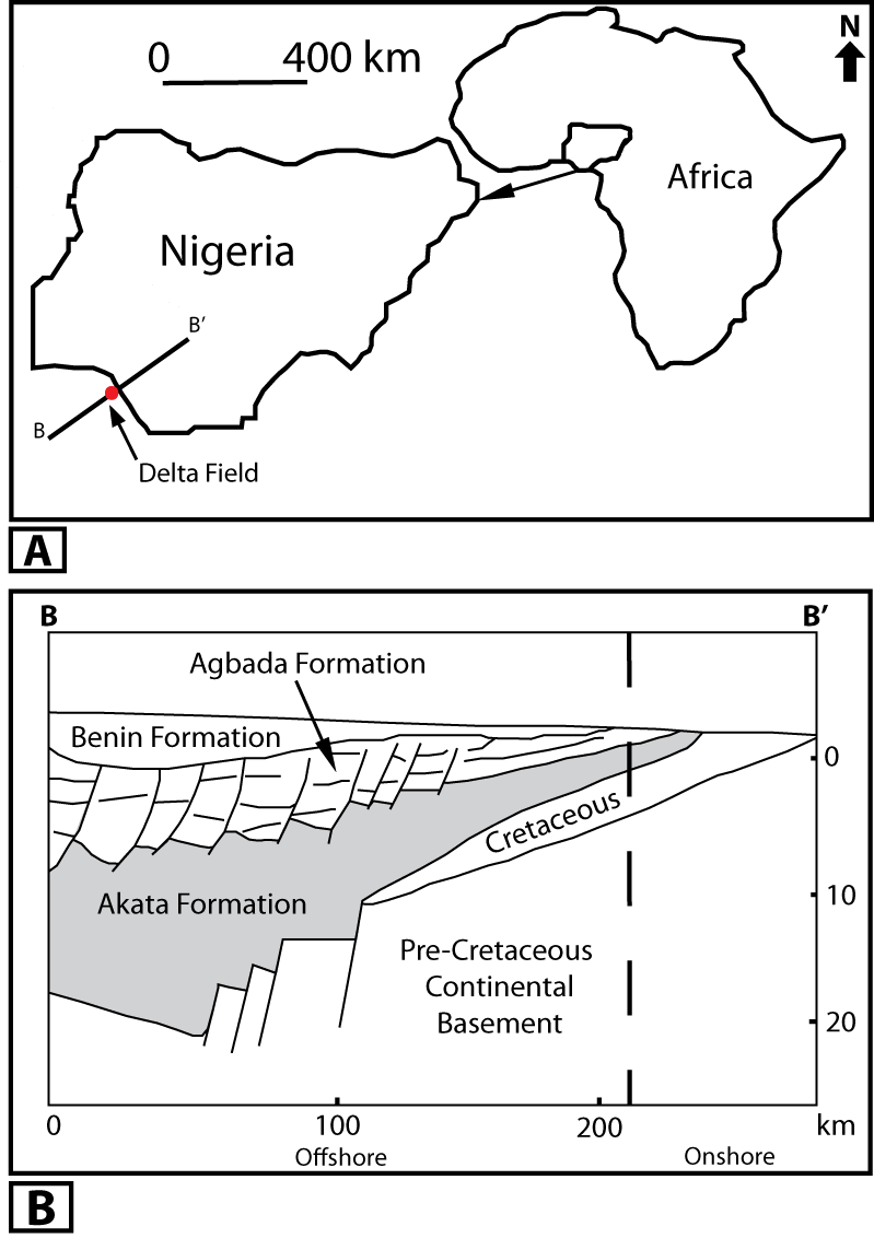 (A) Location of the Delta Field, which is located within the Niger Delta (B) Cross section across the Niger Delta, which has been modified from Nyantakyi et. al (2003) and Stacher (1995)